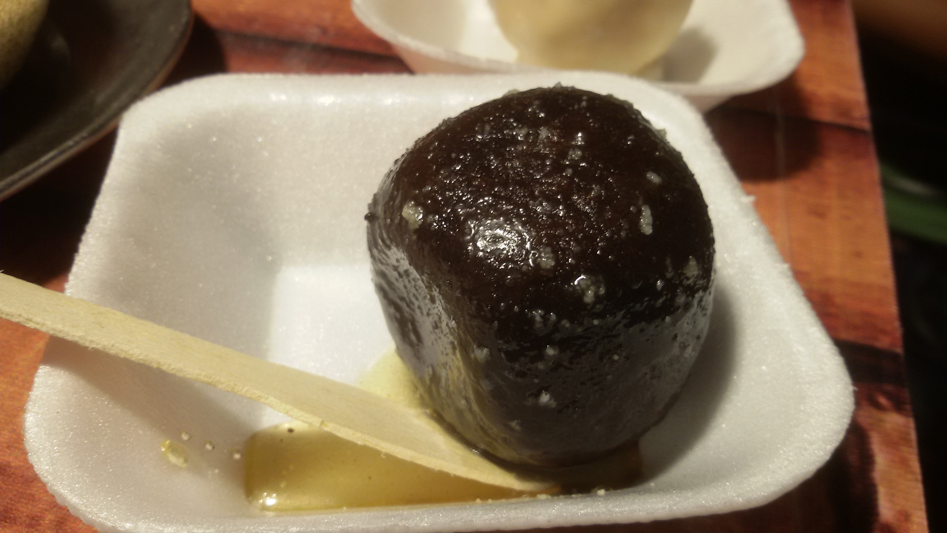 Photograph of chhanabara from Baharampur, Murshidabad District, West Bengal. Chhanabara is a popular sweetmeat from Murshidabad District.